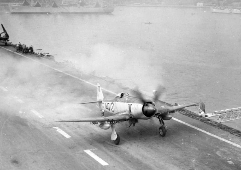 A Royal Navy Hawker Sea Fury FB.11, with RATOG (Rocket Assisted Take Off Gear), taking off from the carrier HMS Ocean (R68) in Sasebo Harbour, Japan.